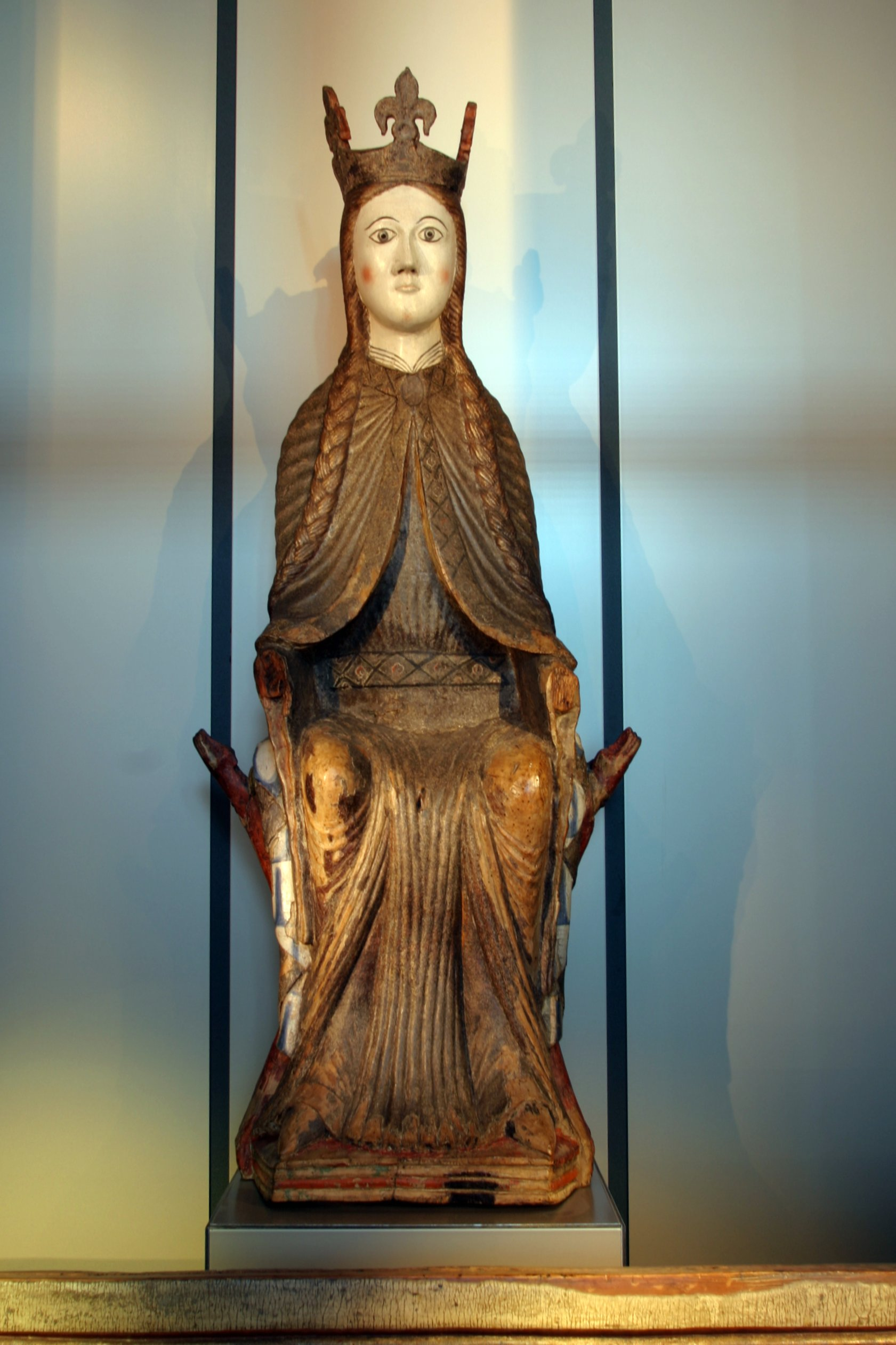 MOTIV: Madonna (kanskje St. Sunniva) PERIODE: ca. 1200 FUNNSTAD: Urnes stavkyrkje KOMMUNE: Luster ENGLISH: Wooden Madonna or St. Sunniva-statue. Found in Urnes stave church, Luster, Western Norway. From around year 1200 A.D. Exhibited in Bergen Museum.